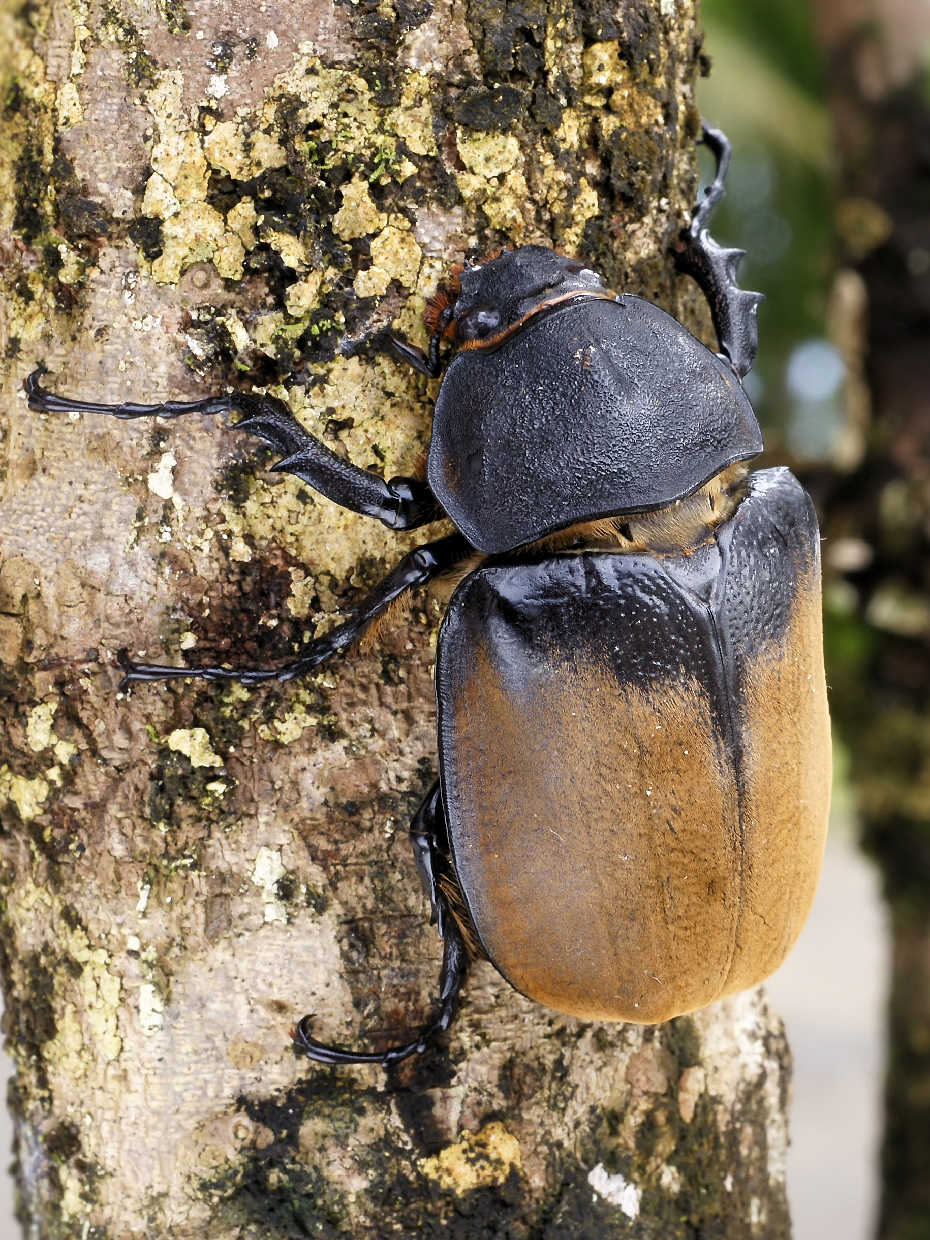 8 cm long female Hercules beetle at Cahuita, Costa Rica.